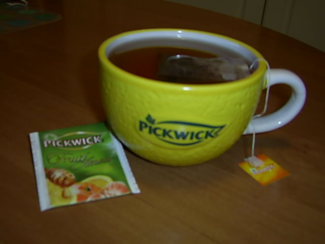 A cup of Picwick tea in a promotional Picwick mug.